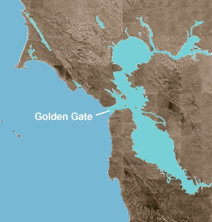 Golden Gate © 2004 Matthew Trump = User:Decumanus